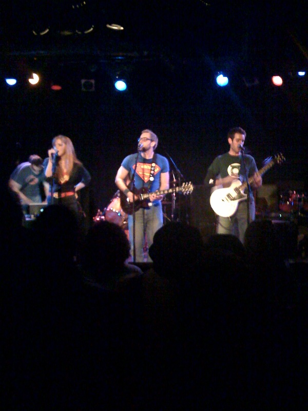 I Fight Dragons at Martyr's in Chicago